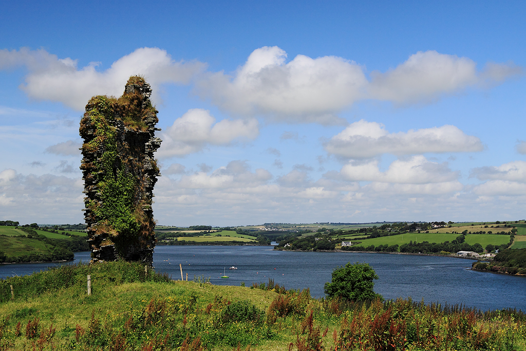 Castles of Munster: Ringrone, Cork A four storey fragment of a de Courcy tower still stands overlooking the mouth of the Bandon river just south of Kinsale.